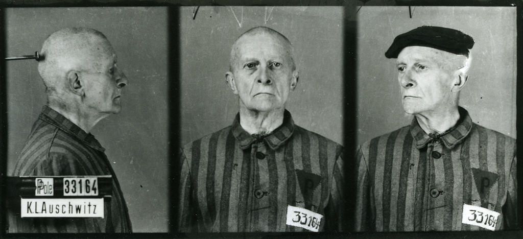 Ludwik Puget (1877-1942) – Polish sculptor and painter, executed in Nazi-German Death Camp Auschwitz